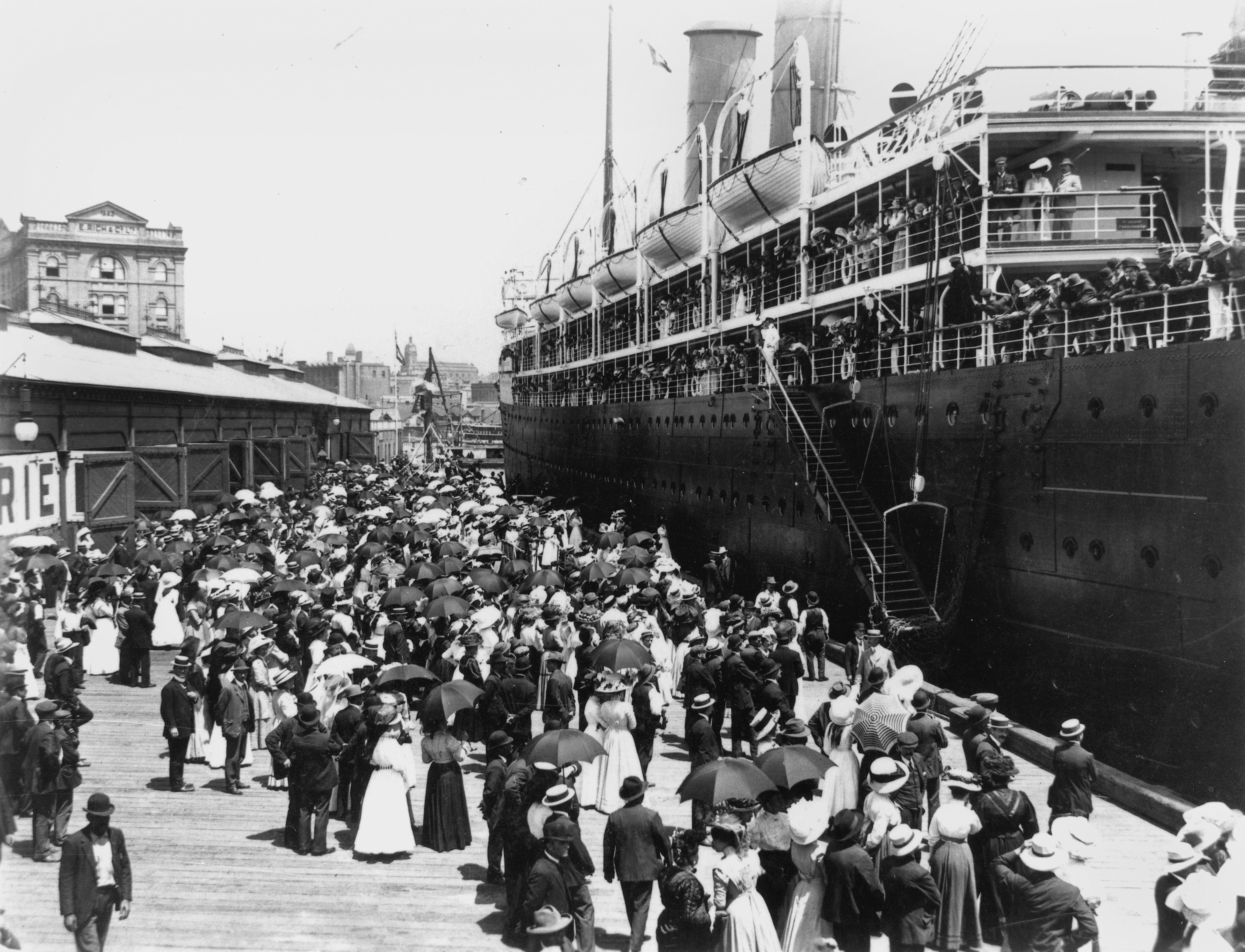 Osterley (ship). Men wearing boaters and women shaded by umbrellas are gathered on the dock to bid farewell to passengers sailing on the Osterley.